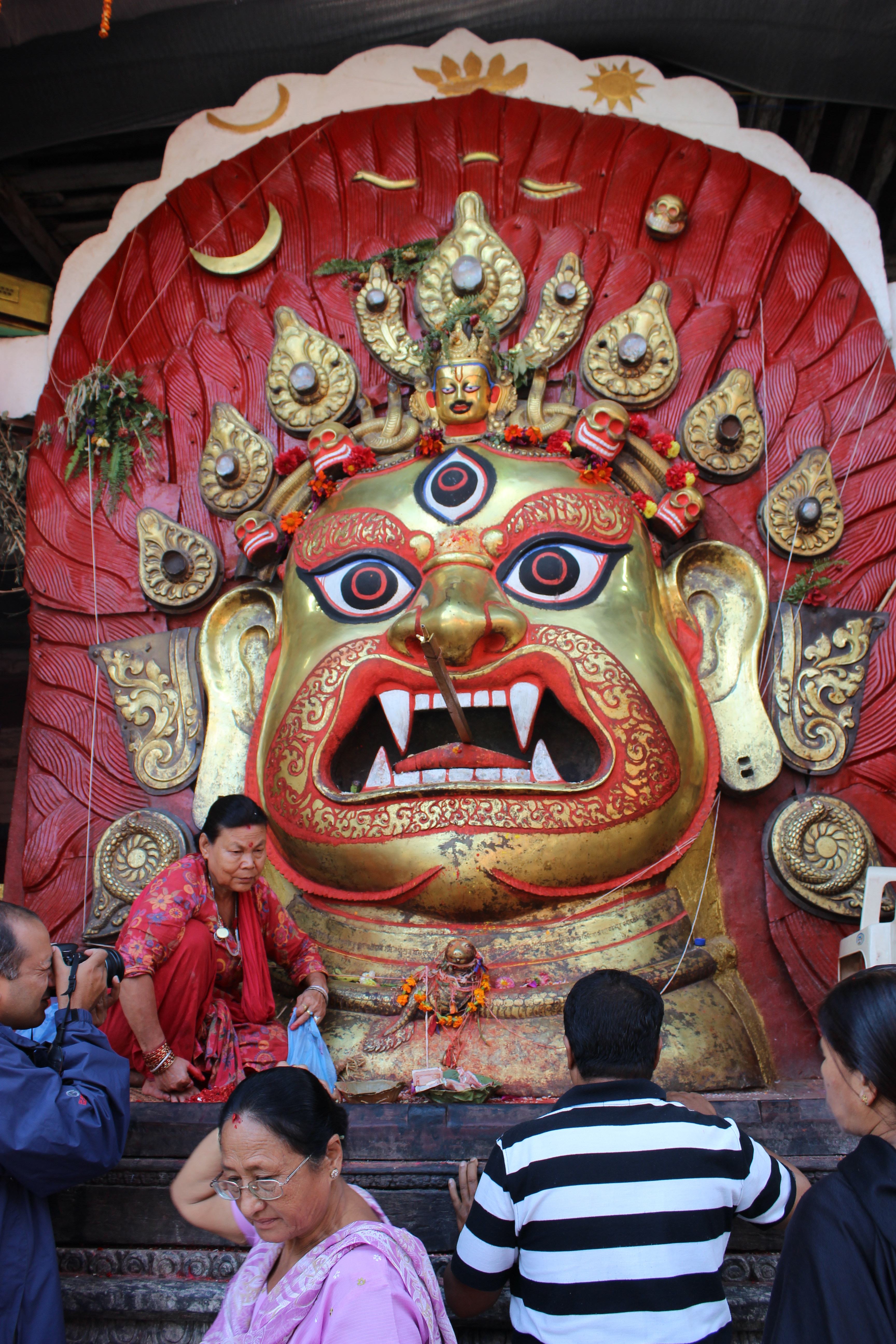 swat Bhairabi .